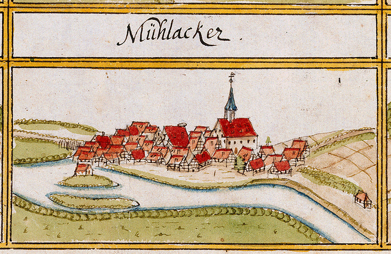 View of Mühlacker from the forest register books created by Andreas Kieser